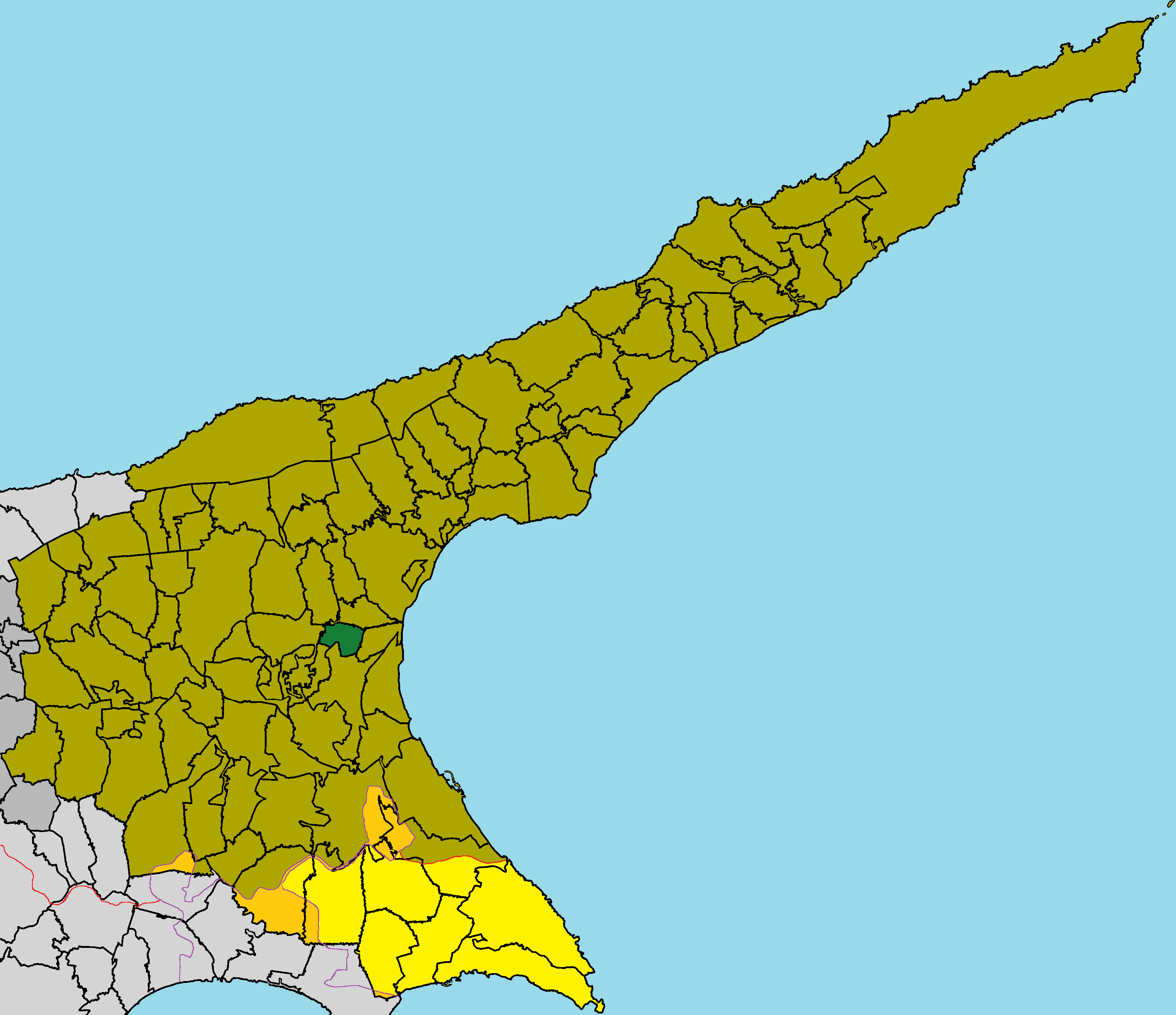 Arnadi in Famagusta District (de jure).